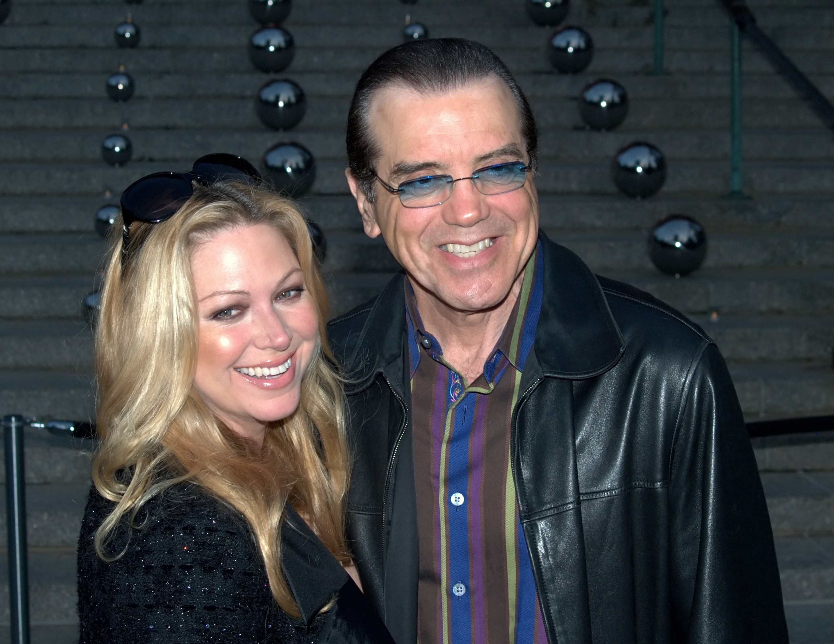 Gianna Ranaudo and Chazz Palminteri at the 2010 Tribeca Film Festival.